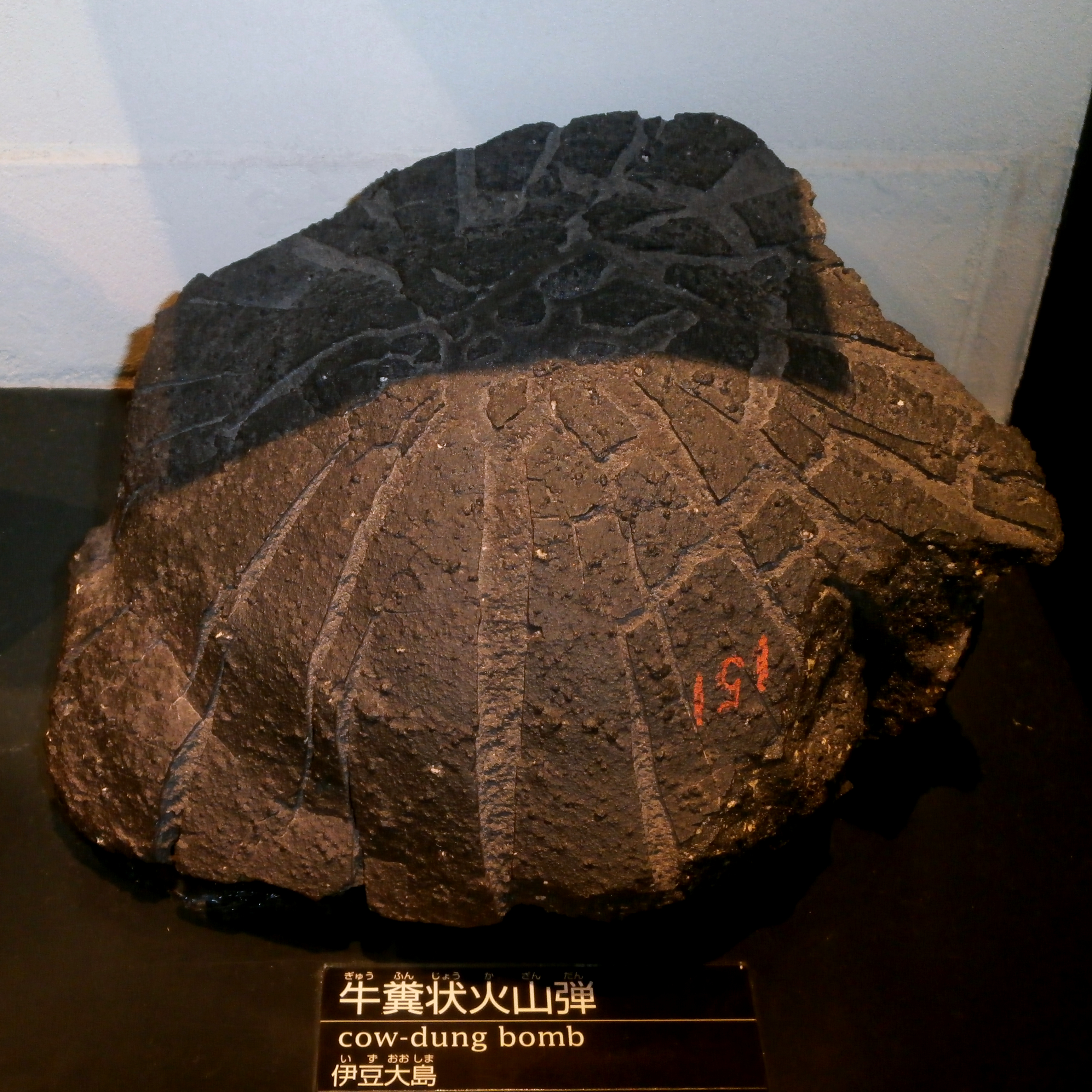 Cow-dung bomb from Izu Ōshima, Japan. Exhibit in the National Museum of Nature and Science, Tokyo, Japan.